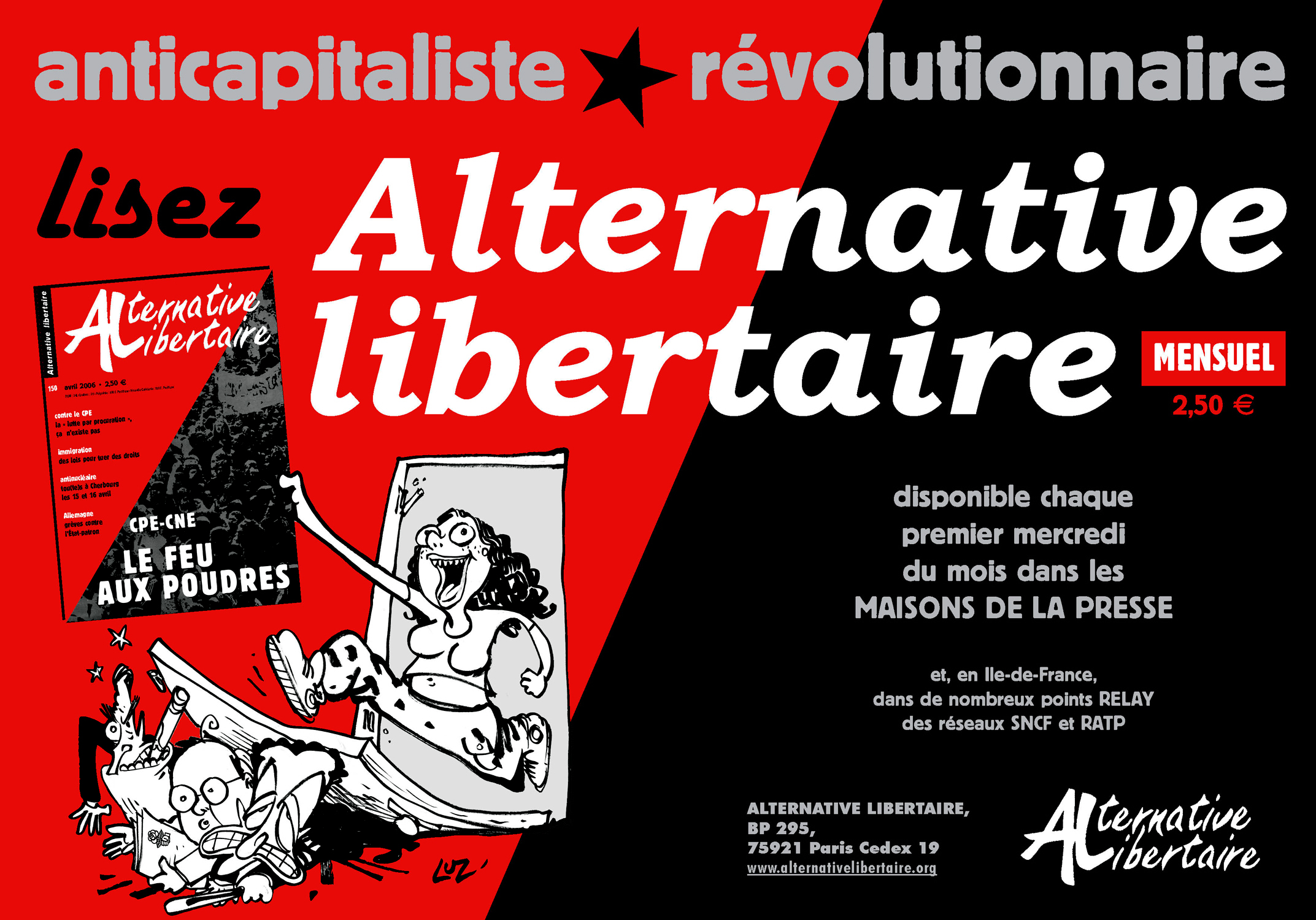 Poster for the French anarchist-communist newspaper "Alternative libertaire"